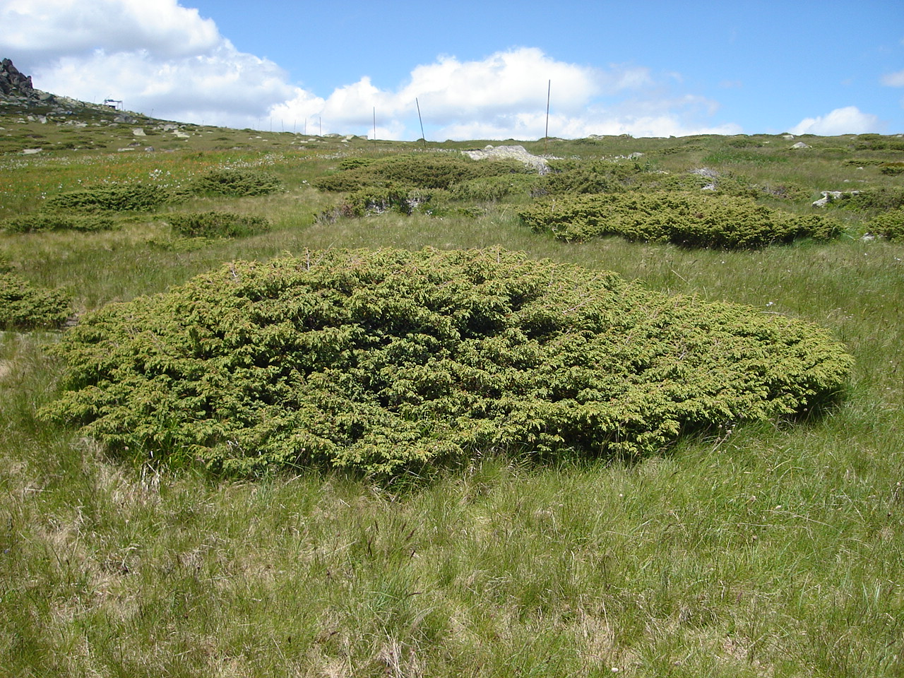 Juniperus communis subsp. alpina, Bulgaria, Vitosha mountain, near to its highest point Cherni vrah (2290 m)